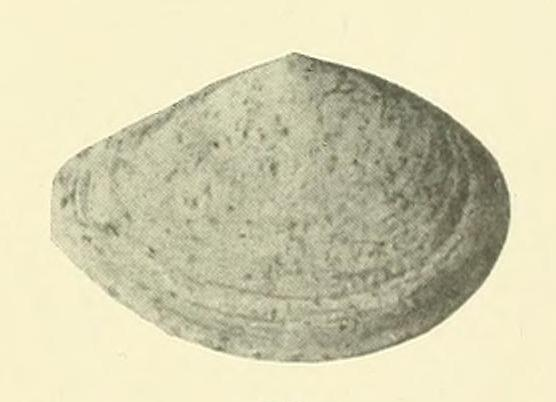 The right valve of the type specimen of Corbula mesopotamica (now classified as Theora mesopotamica). To scale with File:Corbula mesopotamica left valve.jpg (same width in pixels cropped from the same original).